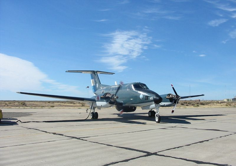 B200 Cormorán in the Base Aeronaval Almirante Zar